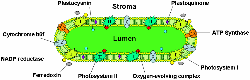 Schematic representation of a thylakoid disc with embedded and associated proteins.